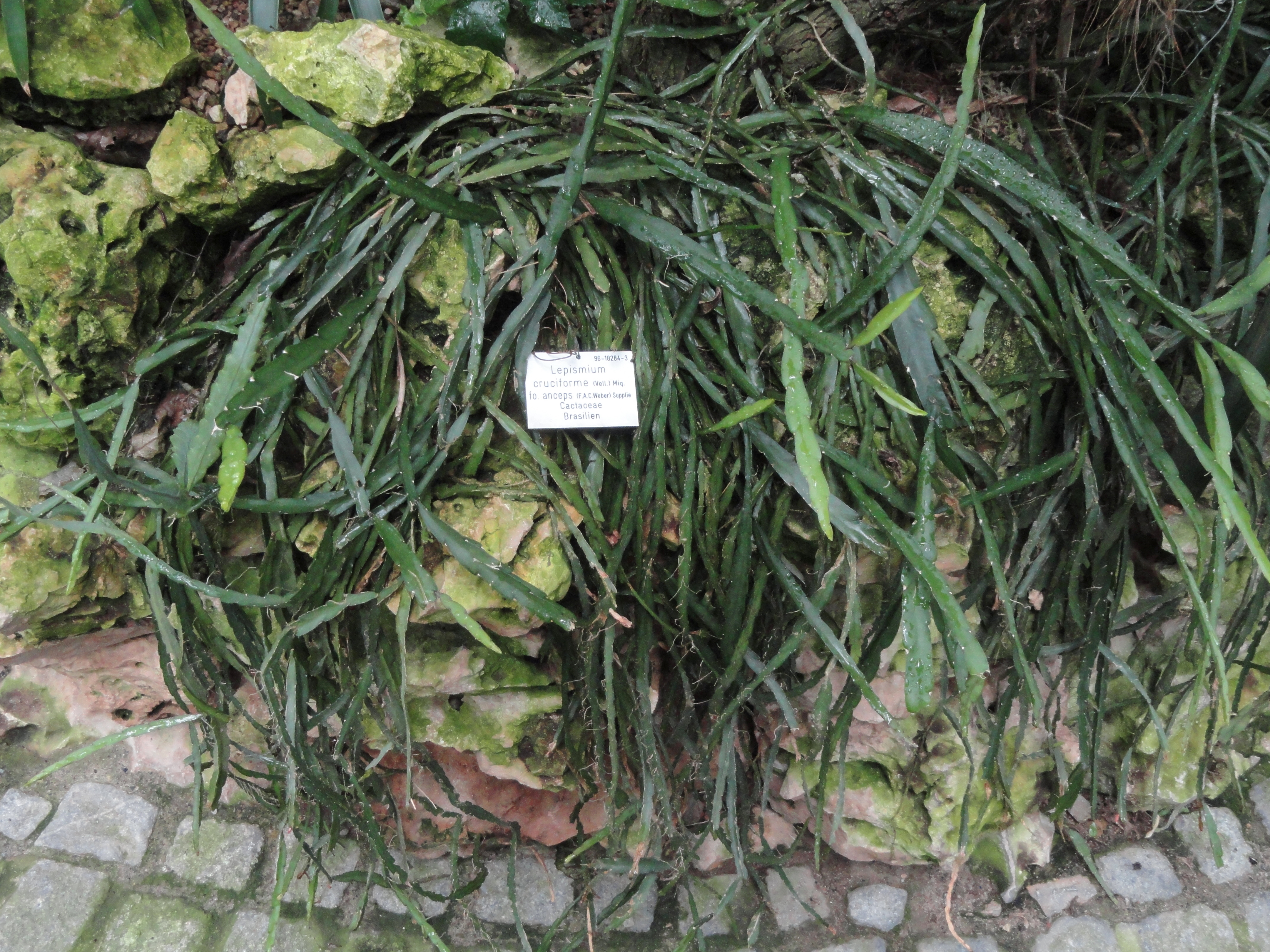 Botanical specimen in the Palmengarten, Frankfurt am Main, Germany.